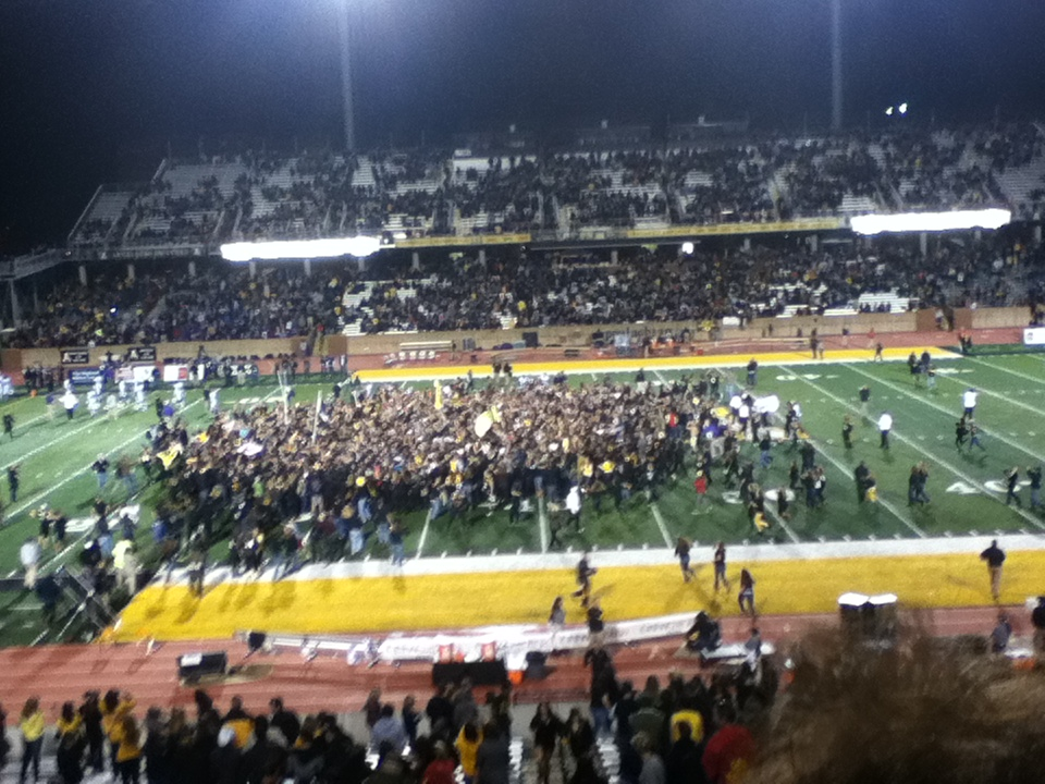 Fans of the Appalachian State Mountaineers storm the field at Kidd Brewer Stadium (located in the mountains of Boone, North Carolina) after the Mountaineers defeated the Furman Paladins 33-28. The win secured the Mountaineers their 12th SoCon football championship (including shared titles), tying the record held by the Paladins; it was also the Mountaineers' 7th SoCon title in the last 8 seasons. A total of 28,946 football fans showed up for the annual "Black Saturday" game, where Mountaineers fans were encouraged to wear black clothing.